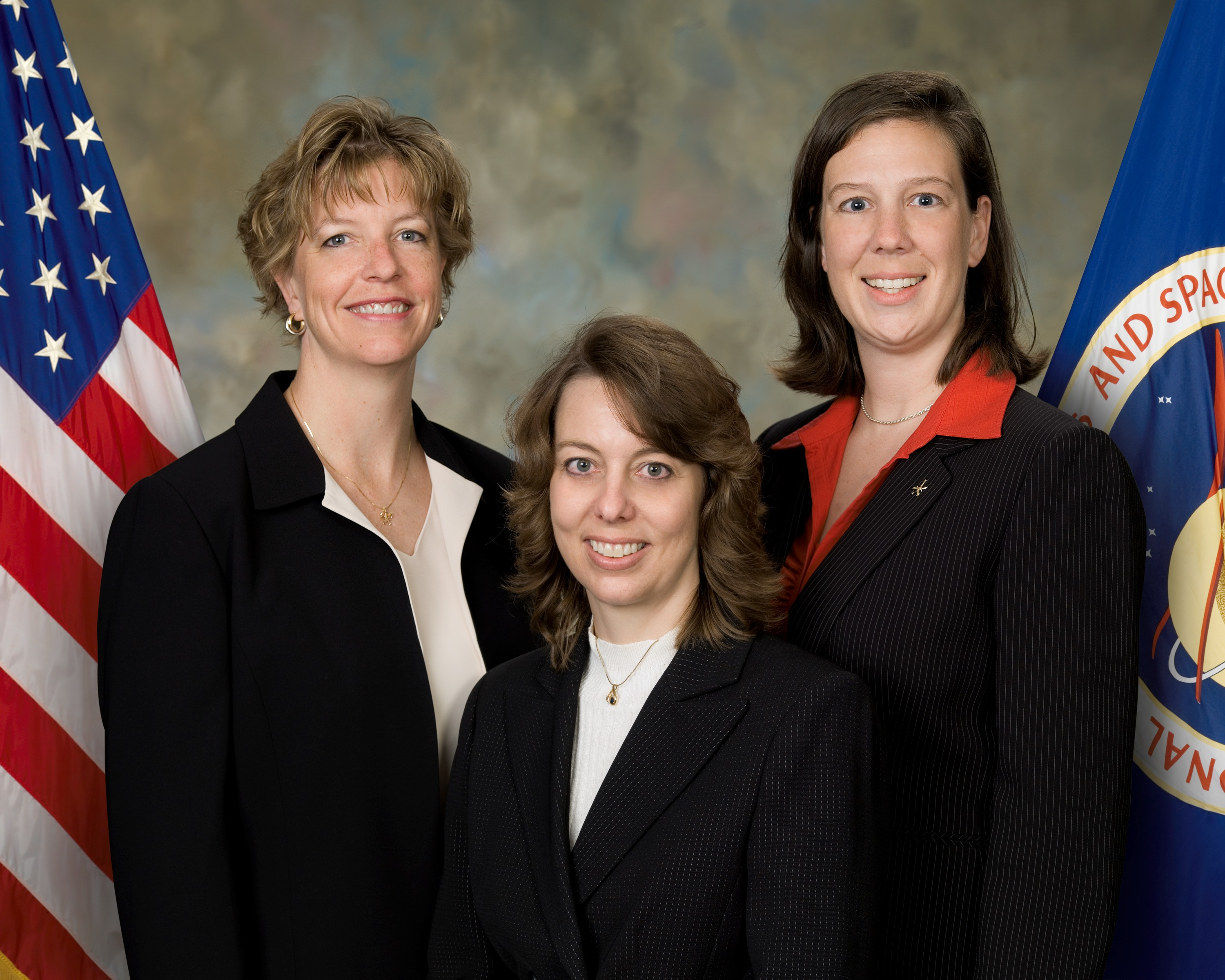 These flight directors have been named for space station support to the STS-117 mission, scheduled for June of this year. From the left are Annette Hasbrook, ISS Orbit 1; Kelly Beck, ISS Orbit 2 (lead); and Holly Ridings, ISS Orbit 3